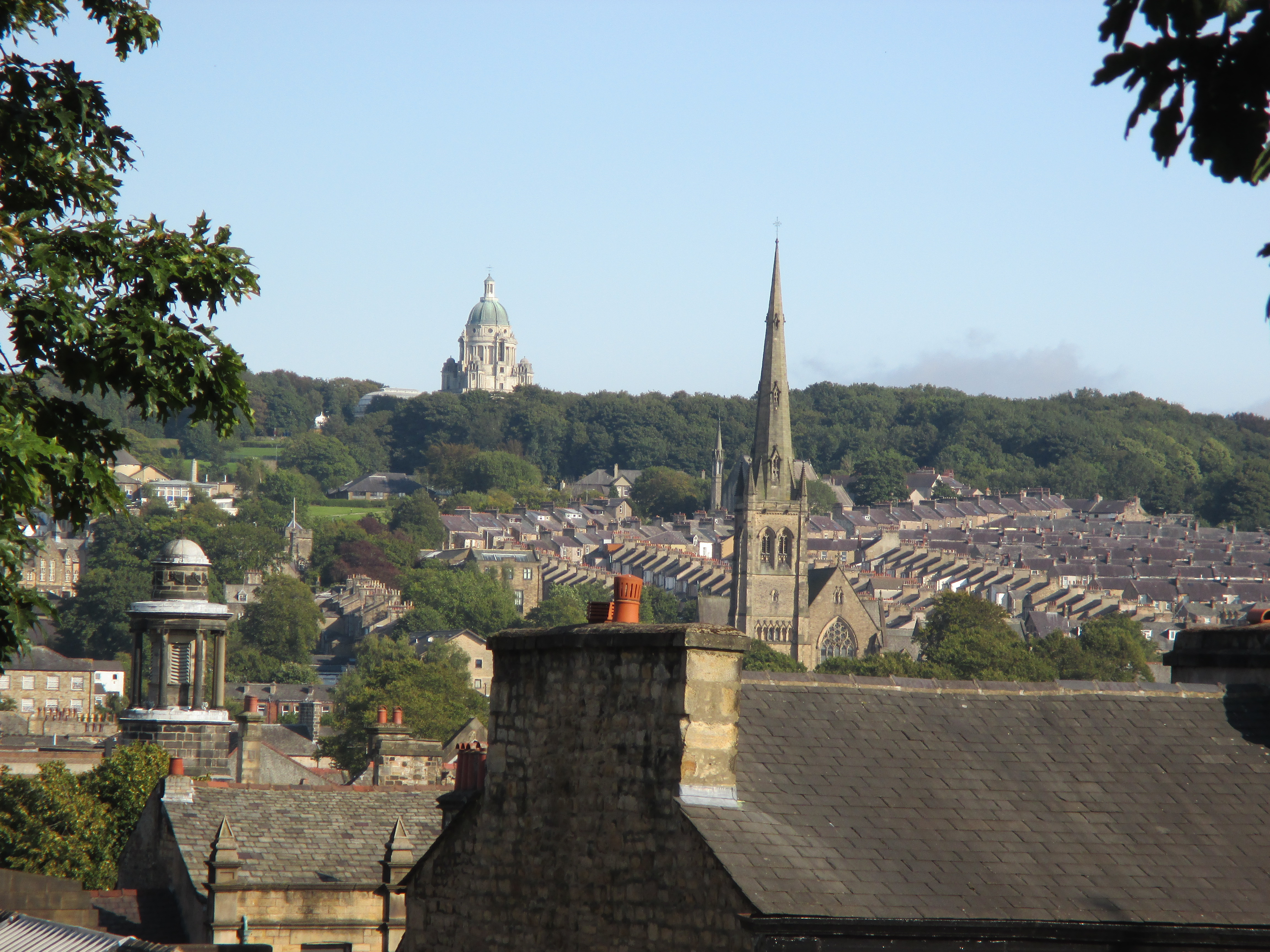 Lancaster Cathedral in the middle distance, and the Ashton Memorial (one and a quarter miles to the south-east) in the background. Photographed from Castle Hill.